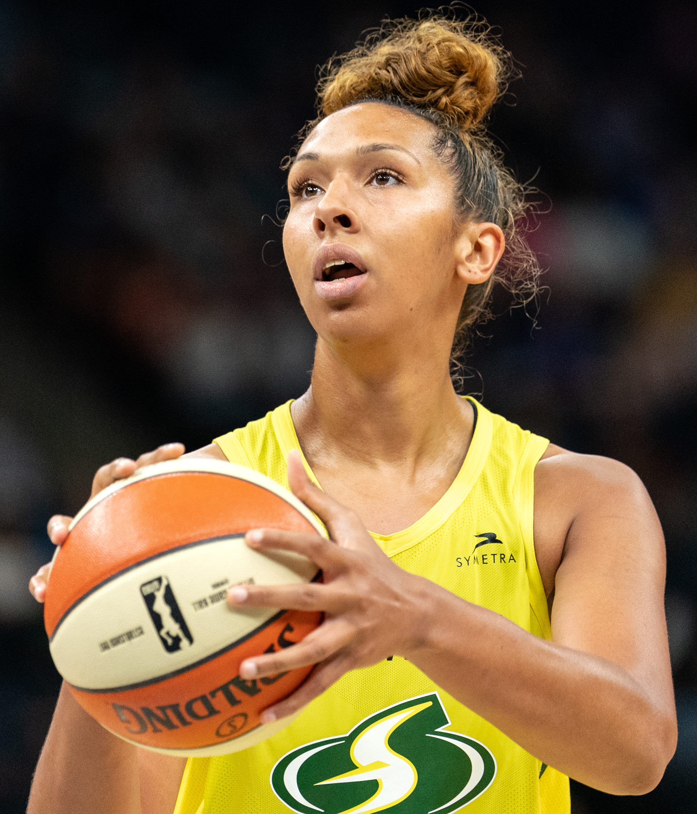 Seattle Storm player, Mercedes Russell shooting a foul shot during a game against the Minnesota Lynx